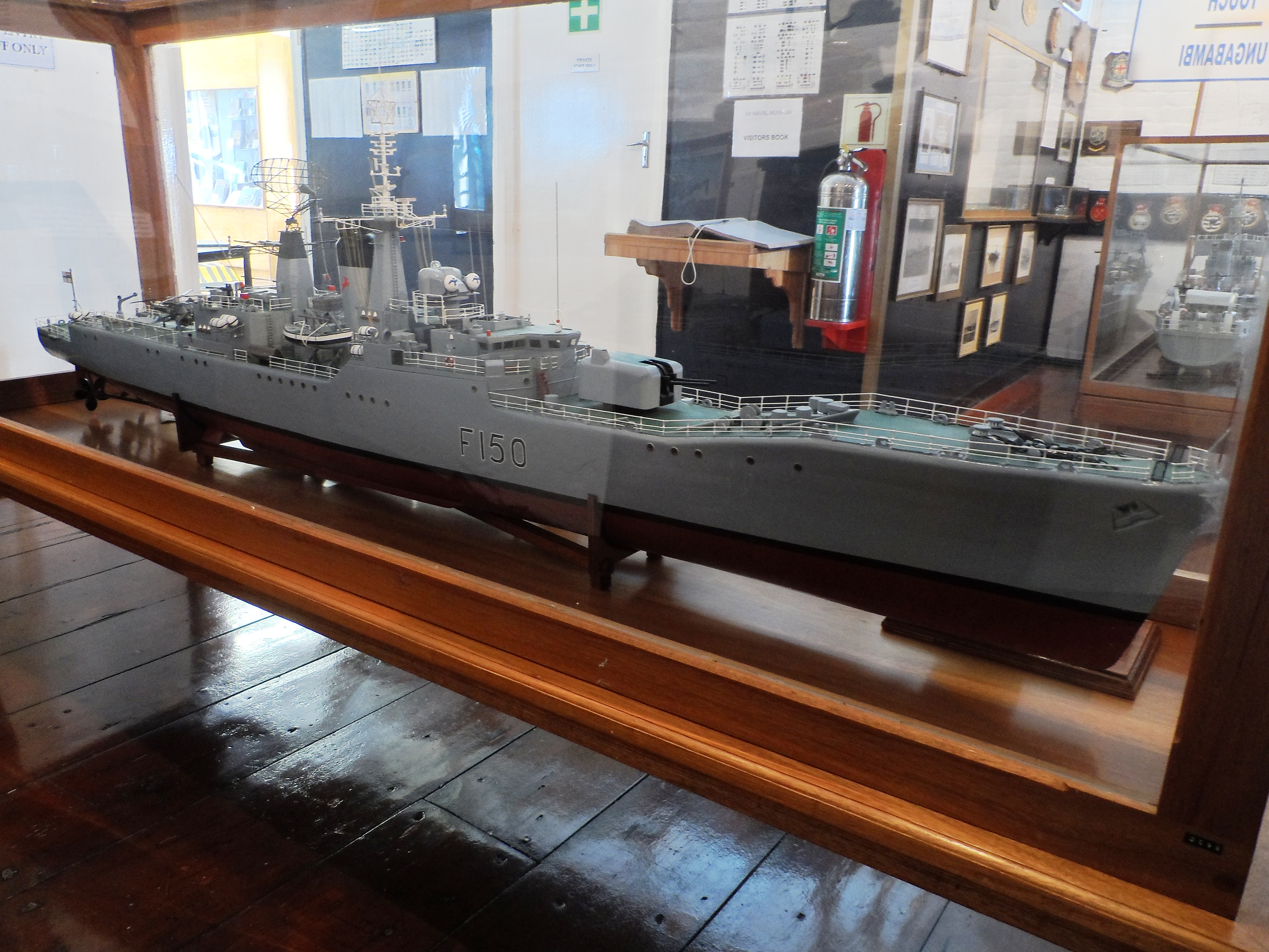 SA Naval Museum, Simonstad This media shows a South African Protected Site with SAHRA file reference 9/2/081/0046.